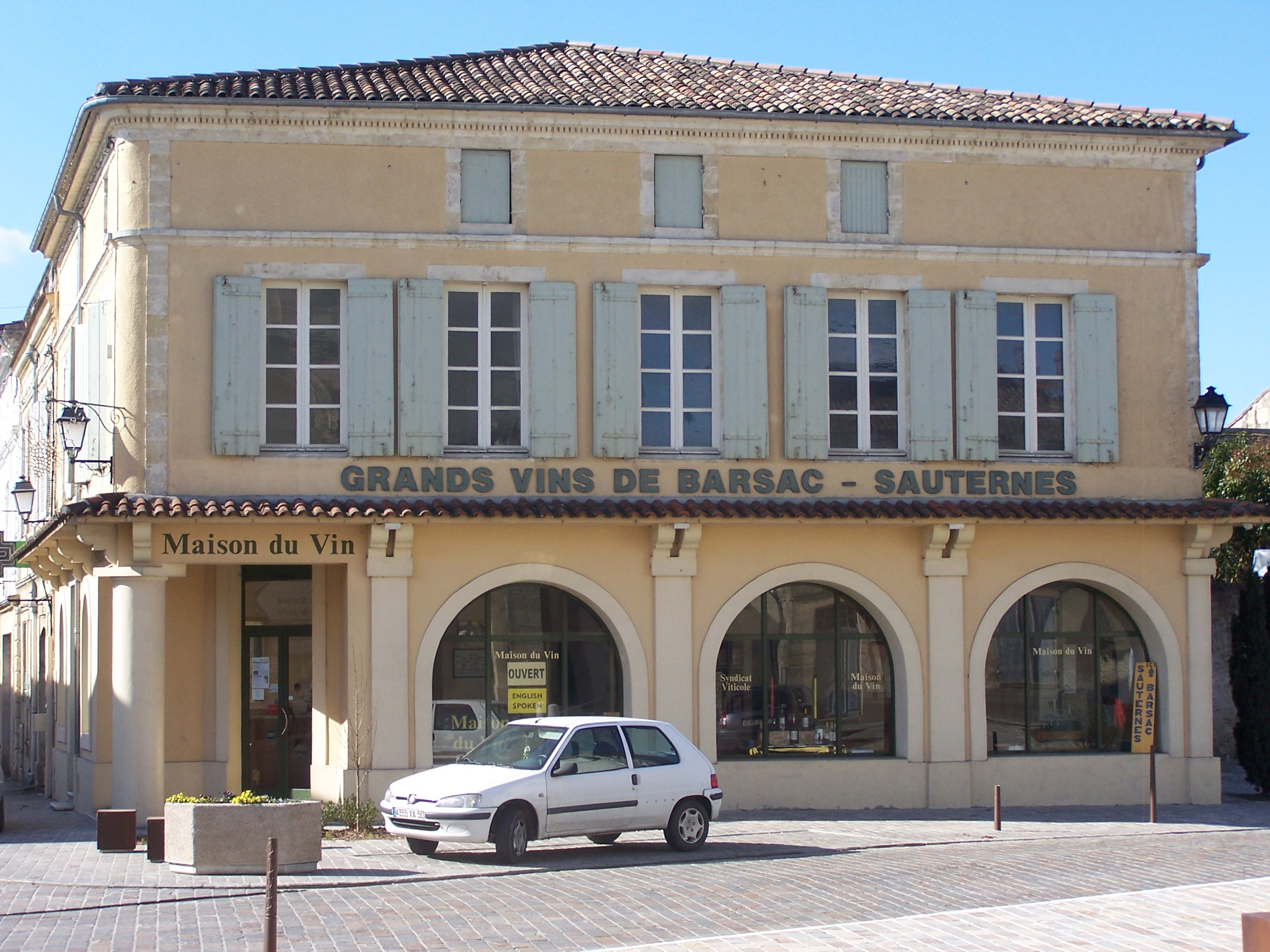 House of wines in Barsac (Gironde, France)